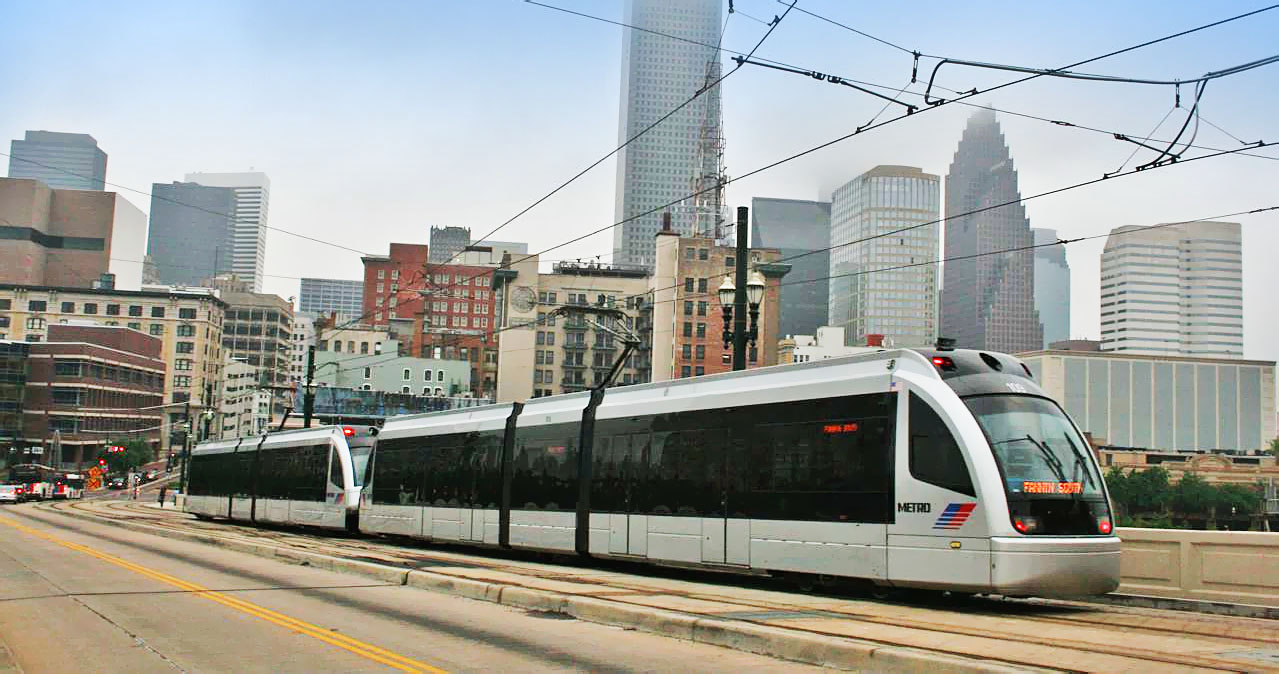 Courtesy of Jackson Myers at Flickr. He has given me permission to use this photo. Photo taken by Jackson Myers at Flickr (who has given me permission to use this photo). I have the emails to prove it!! I am Jackson Myers, the photographer and I approve the use of this photo on Wikipedia. I can't find the original on my Flickr photostream, but this is definitely my photo, and I can upload it myself if that helps.--J-a-x (talk) 22:11, 17 March 2010 (UTC)